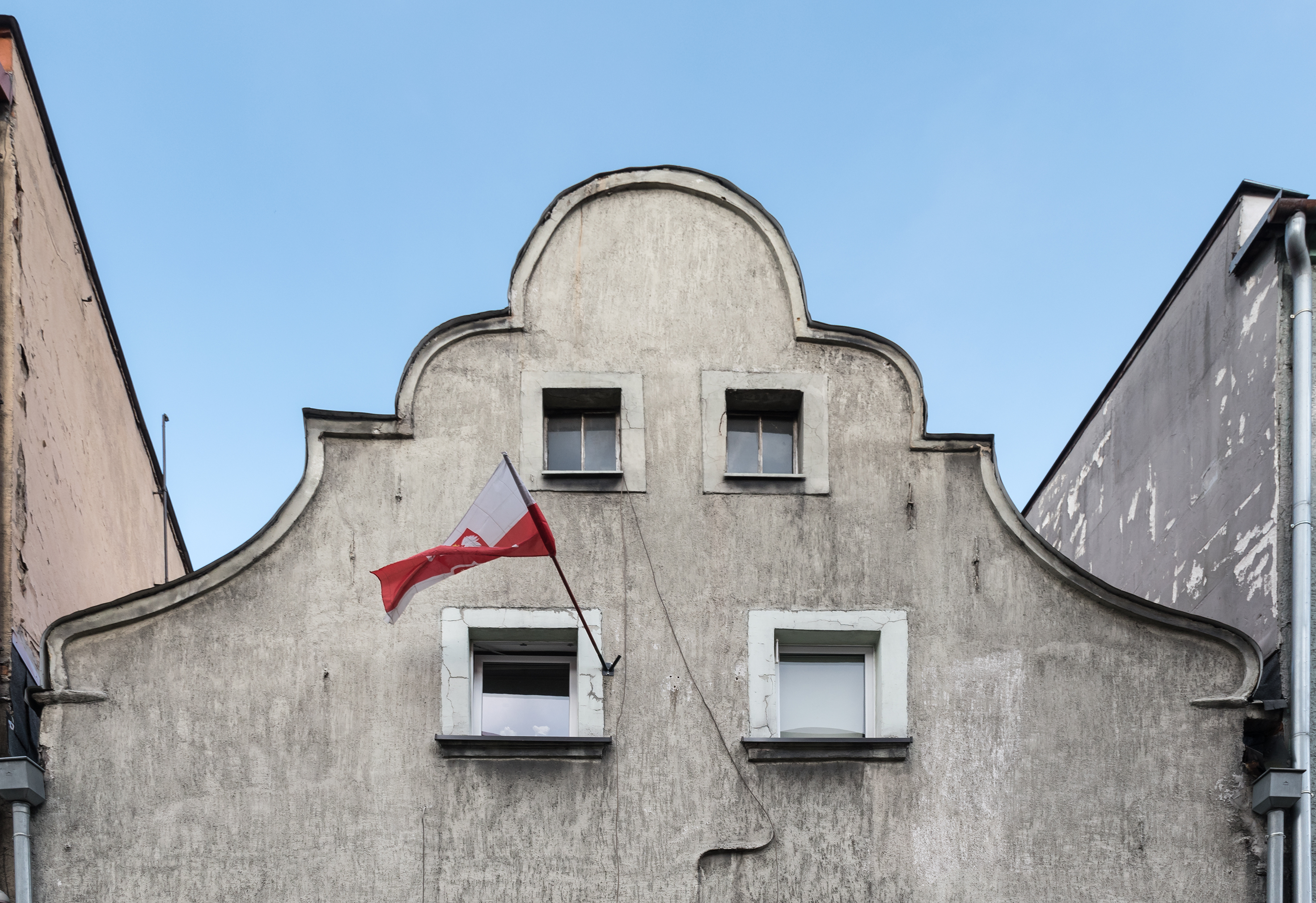 21 Piastów Street in Nowa Ruda